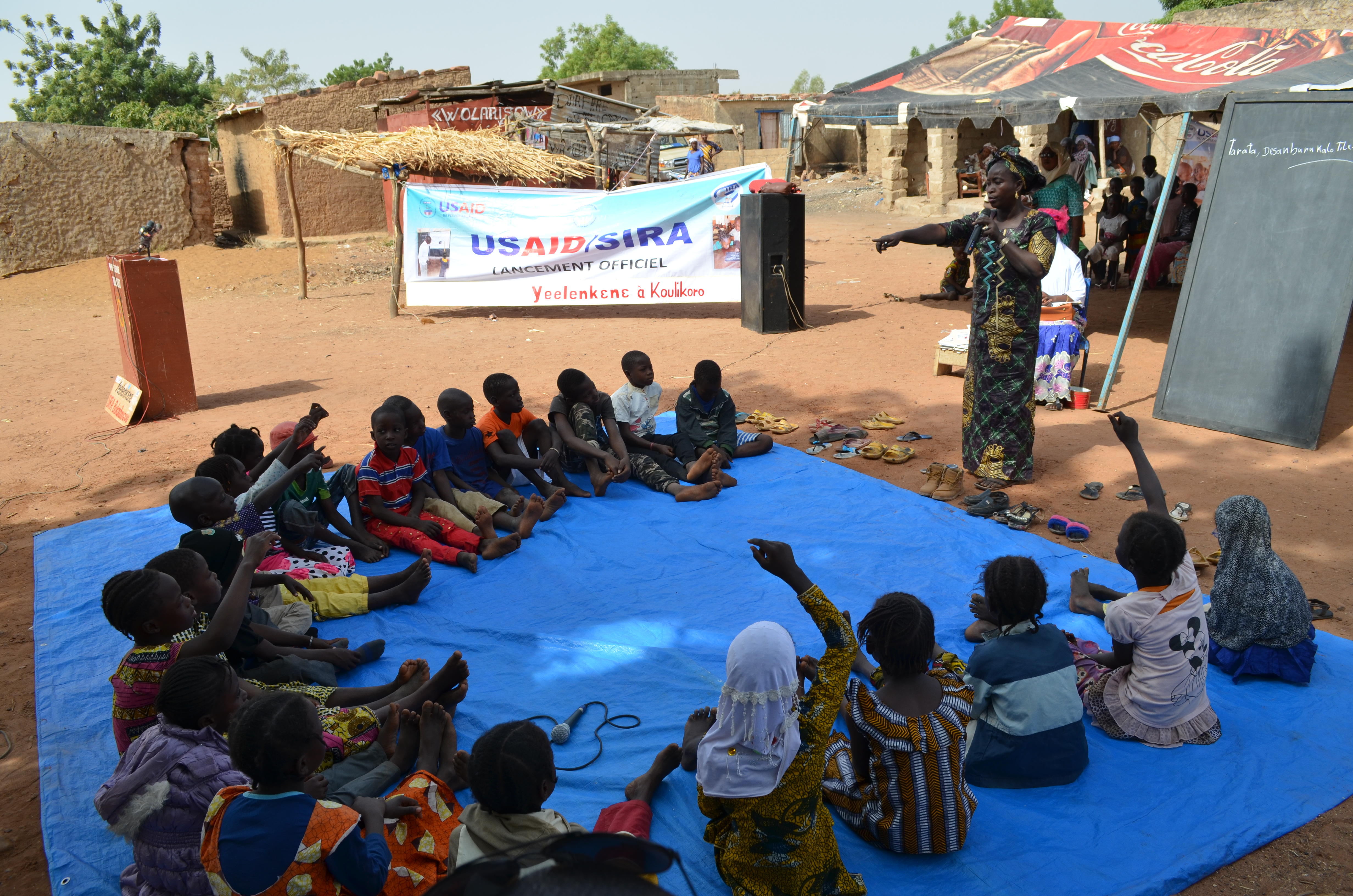 Group of students at the launch ceremony of the community libraries in Koulikoro region with the support of the USAID Selective Integrated Reading Activity. USAID Mali Dec 2017